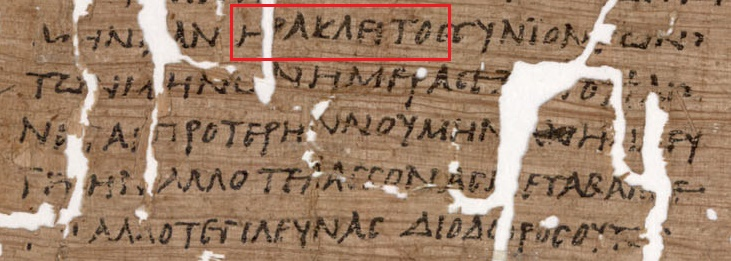 Herakleitos: As the months meet, days since it (sc. the moon) makes its appearance at the first noumenie, (or) at the second sometimes it changes fewer (sc. days), sometimes more'.